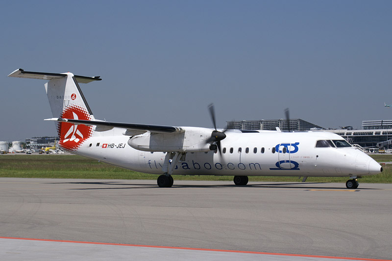 Fly Baboo De Havilland Canada DHC-8 HB-JEJ